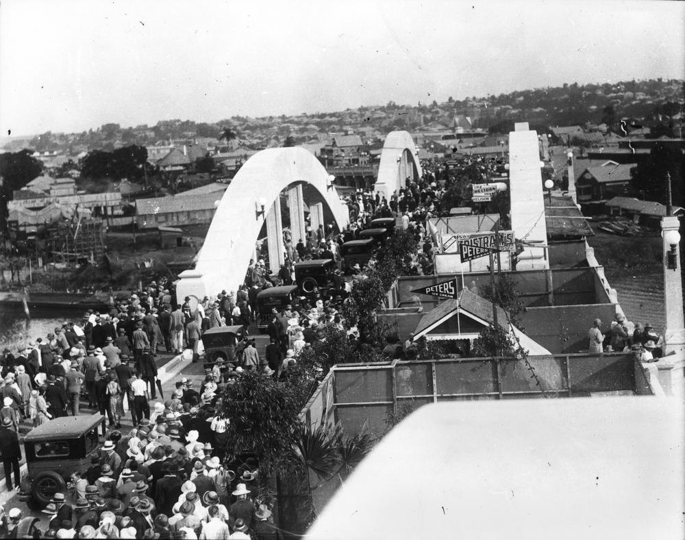 Photographer: Unidentified Location: Brisbane, Queensland, Australia View this page at the State Library of Queensland Information about State Library of Queensland’s collection